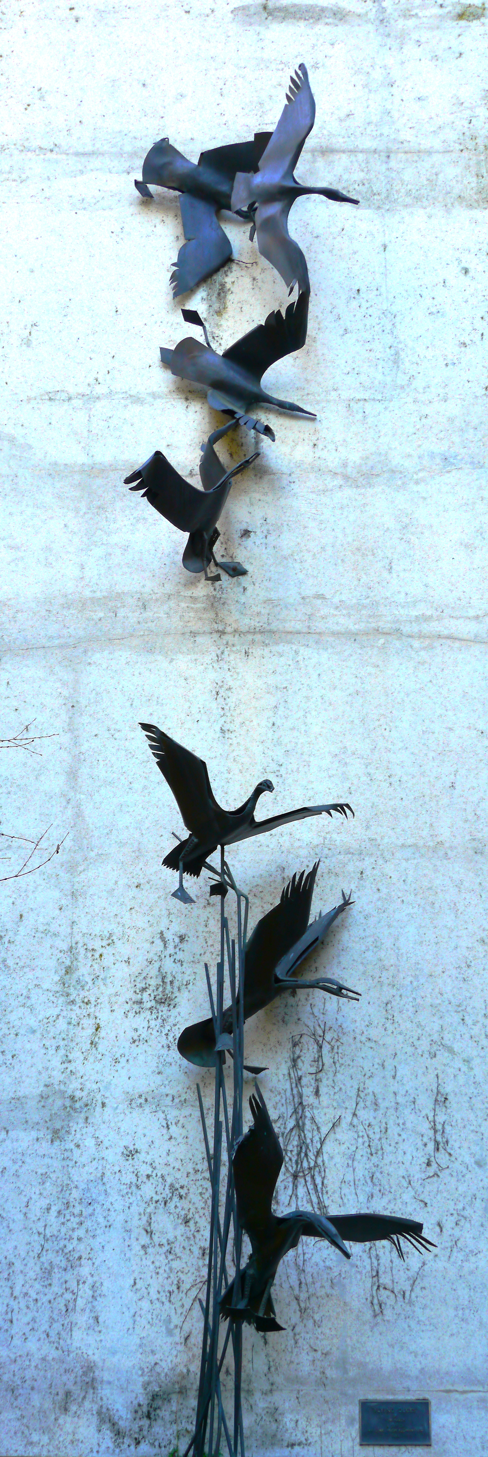 This photo was taken on the University of Oregon campus in Eugene, Oregon.